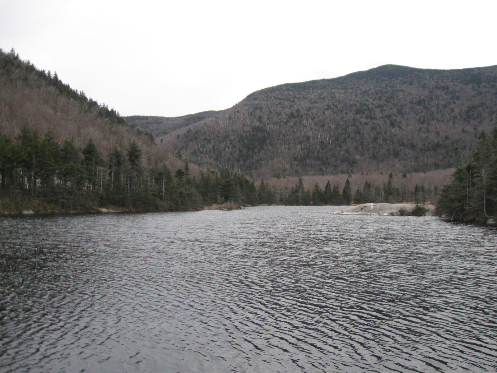 View of Kinsman Notch in the White Mountains (New Hampshire) from Beaver Pond, near height of land.